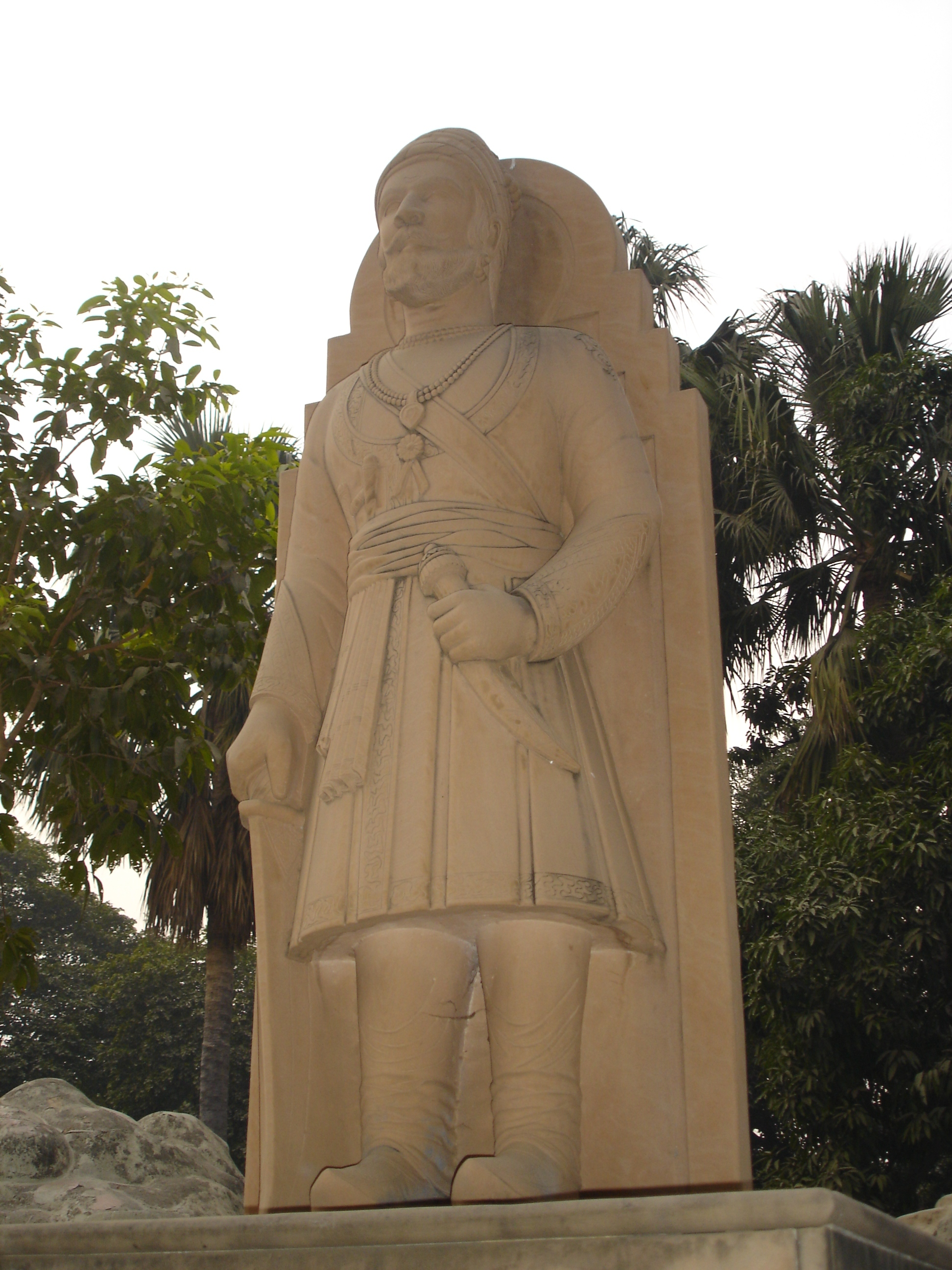 Statue of Shivaji